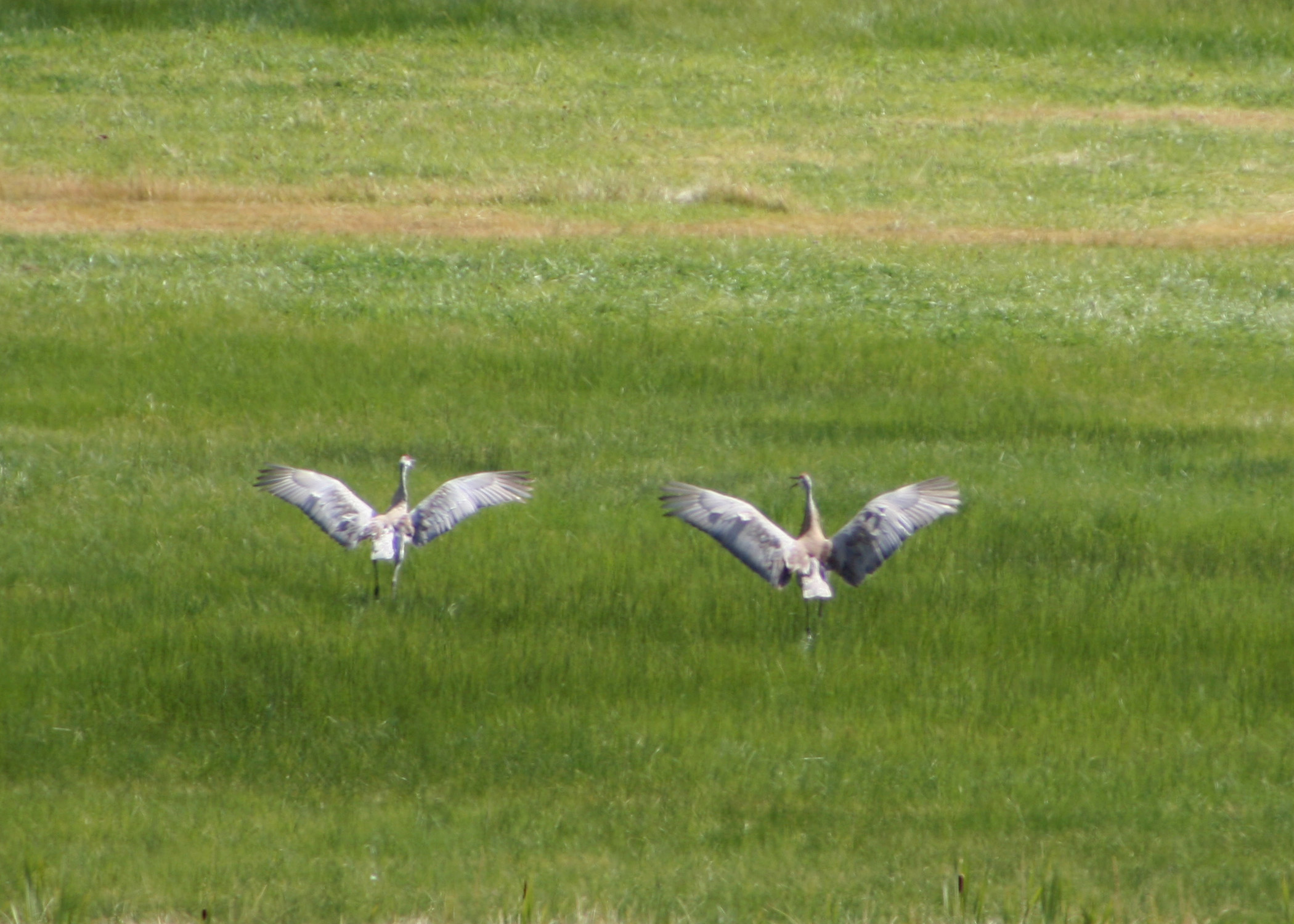 Sandhill craines at Summer Lake Wildlife Refuge in Oregon